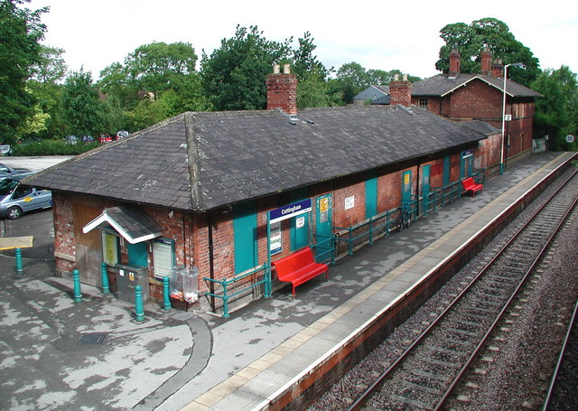 Cottingham Railway Station, Cottingham, East Riding of Yorkshire, England.Looking northwest from the footbridge.